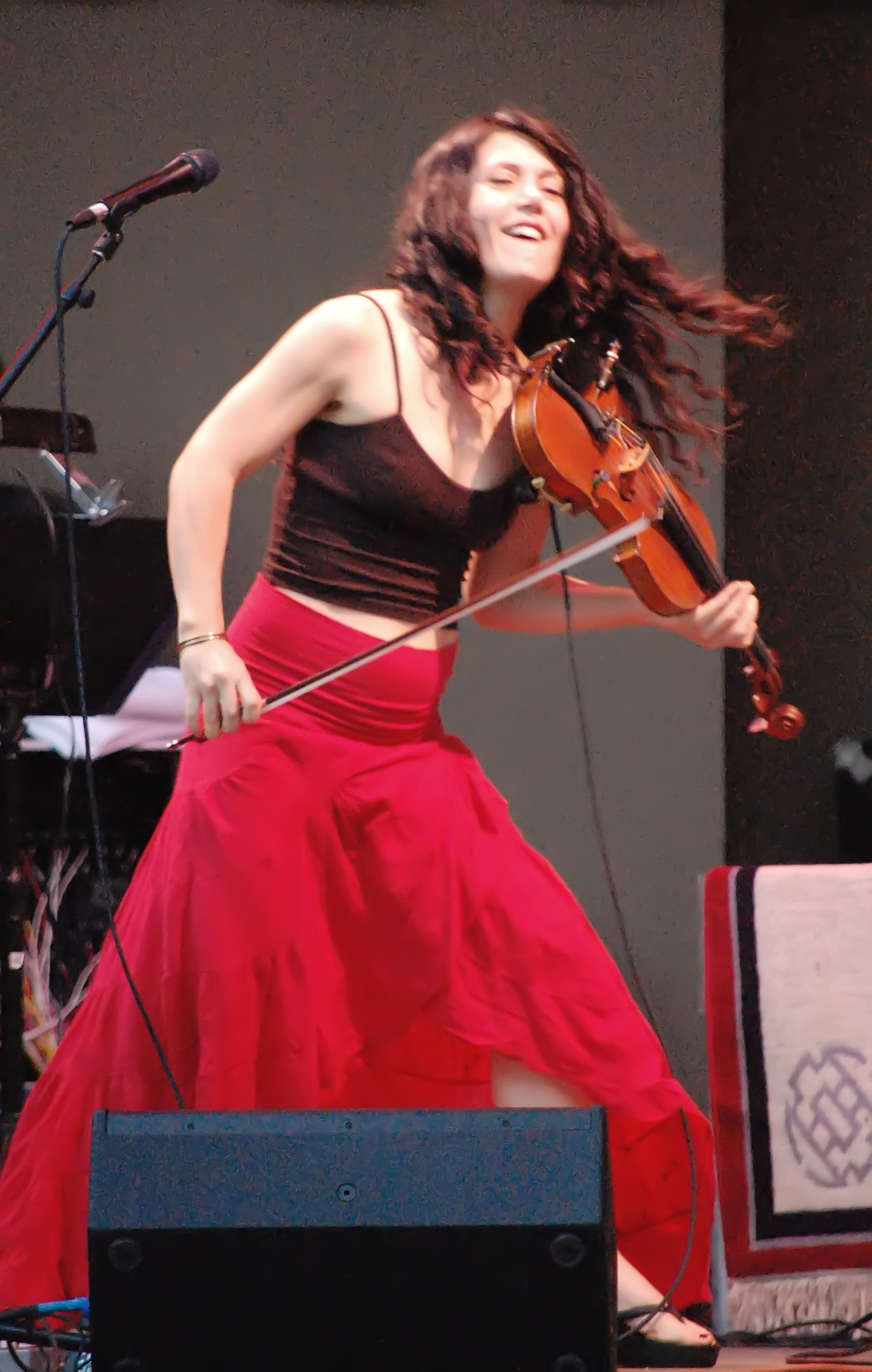 Lili Haydn performs at a free concert at the Levitt Pavilion in MacArthur Park. LA, California. 9 July 2009.